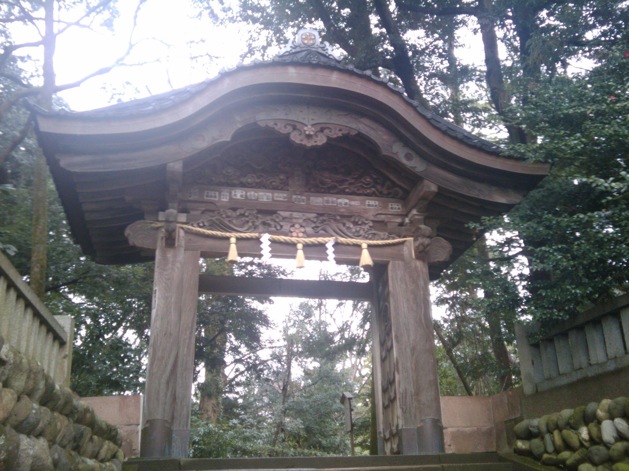 The Higashi-shin-mon gate at the Oyama-jinja shrine in Kanazawa, Ishikawa, Japan